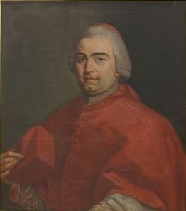 Ignazio Gaetano Boncompagni Ludovisi, cardinal secretary of state